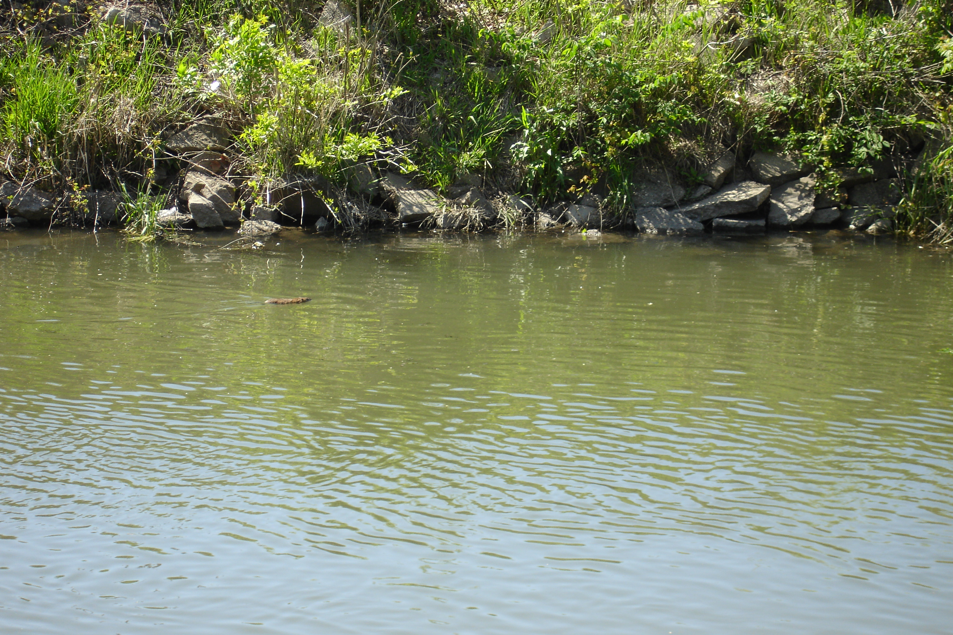 A muskrat moves through the waters of the Kishwaukee River. Muskrat are one of many mammals to be found in and around the river. Rocks and plants are along the riverbank in this photo.